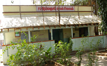 Police station of Brahmadesam Village Panchayat located in Tindivanam Taluk of Villupuram District, Tamilnadu (India).